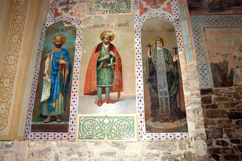 Shio-Mgvime Monastery. The 19th-century murals